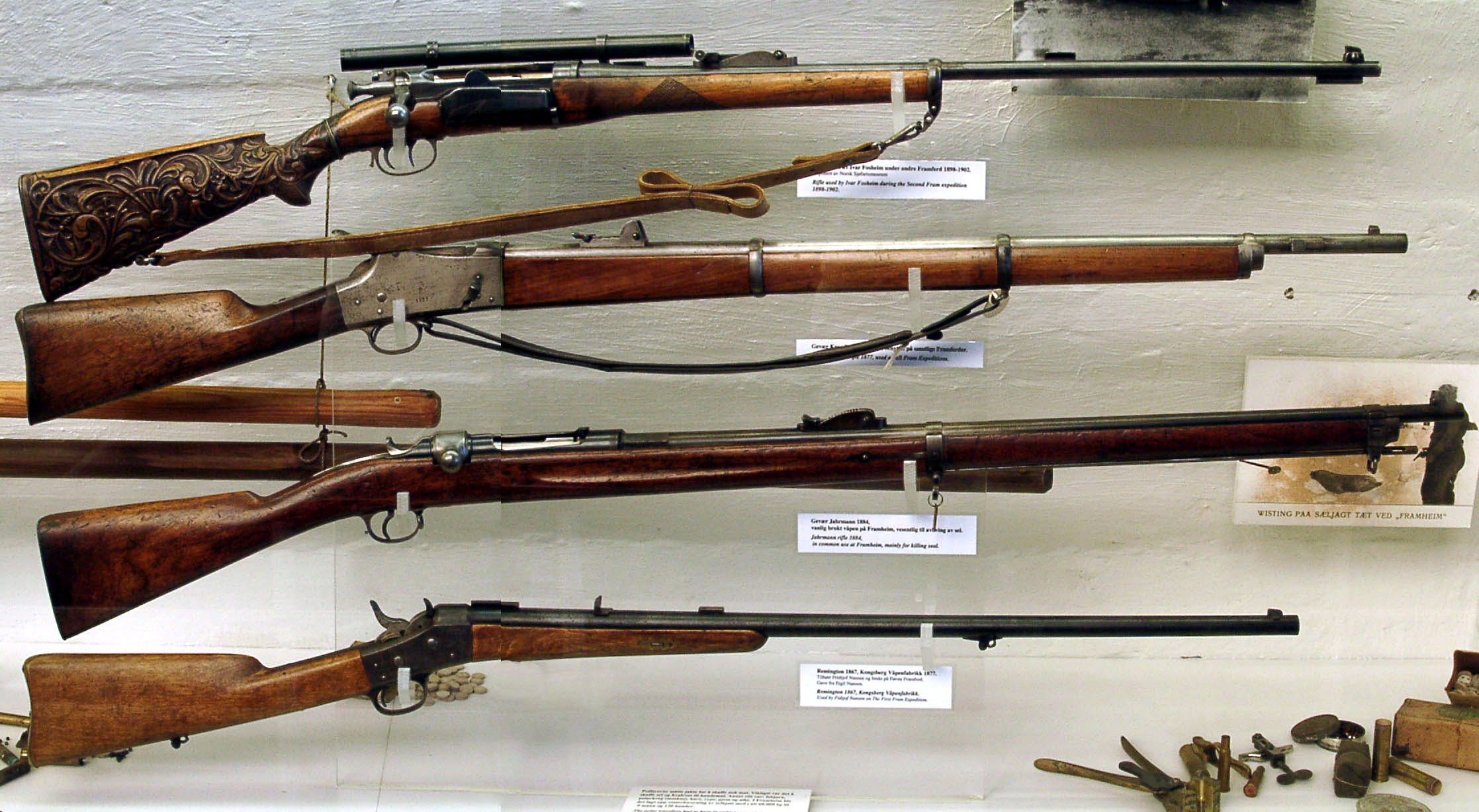 Composite image, created from two images taken at the Fram museum in Oslo by the uploader. Showing from the top: Krag-Jørgensen, civilian M1894 with carved stock Krag-Petersson Jarmann M1884 Remington M1867 WegianWarrior 13:58, 6 December 2006 (UTC)